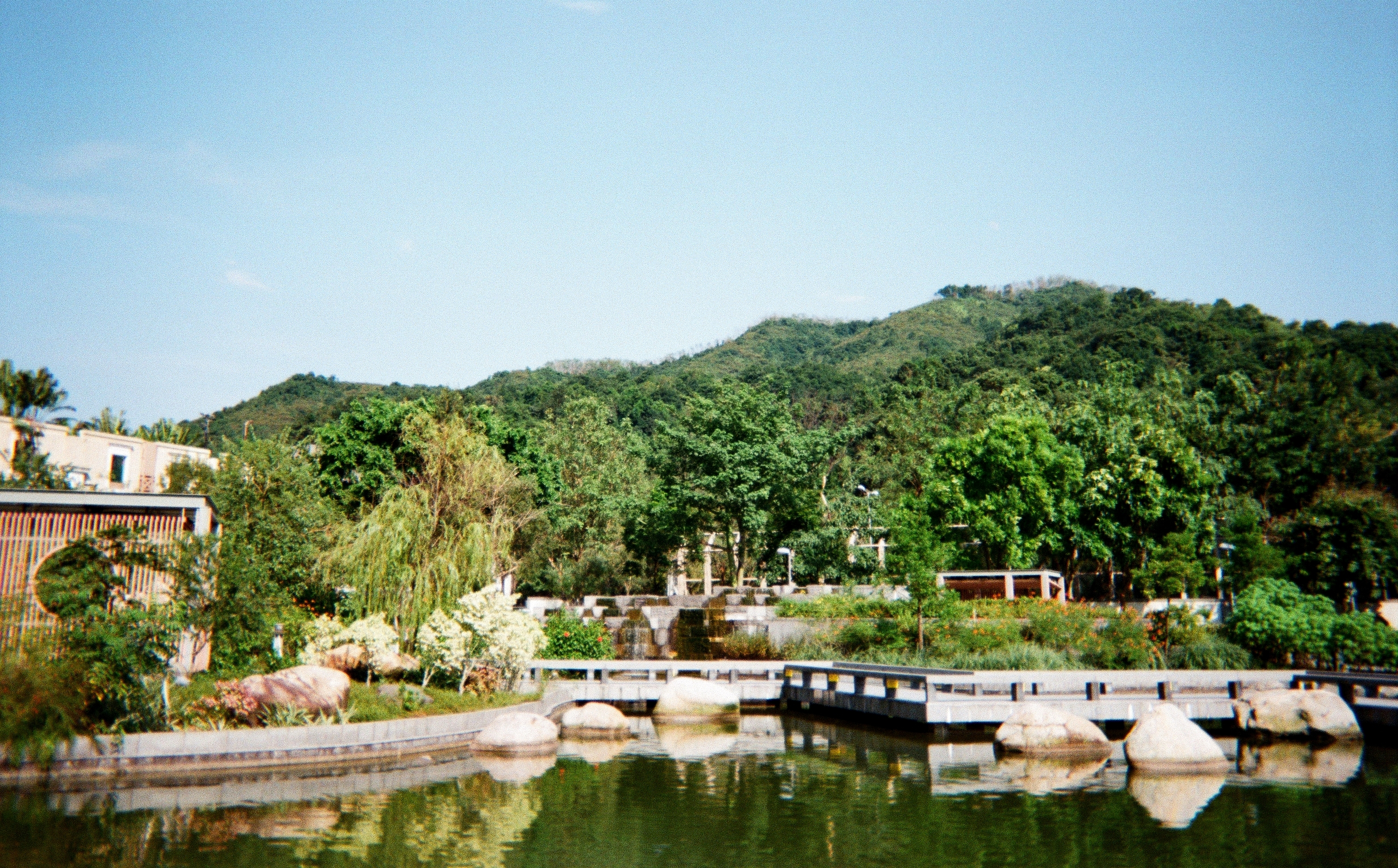 Ponds in Man Kuk Lane Park, Hang Hau, Tseung Kwan O, Hong Kong